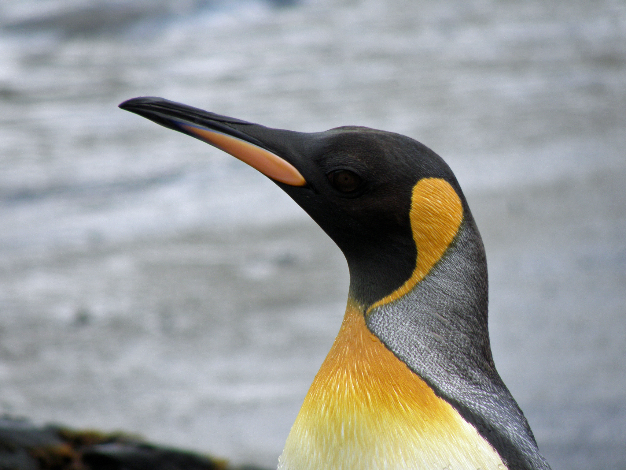 King Penguin - Gold Harbour - South Georgia - Lateral spots